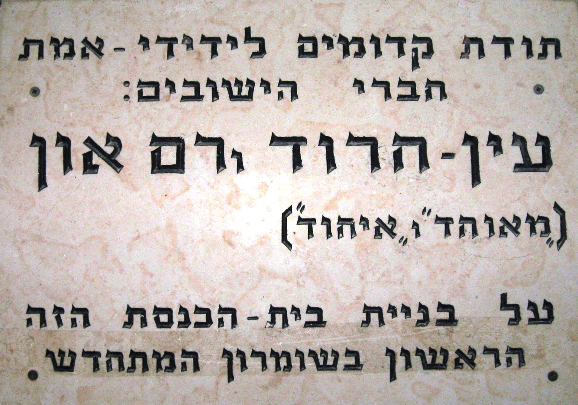 Kedumim_Synagogues_table_at_the_entrance